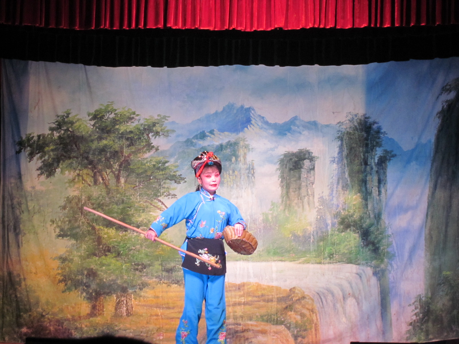 Changsha Flower Drum Opera, Changsha mandarin dialect is used on stage, giving a greater impact to Hunan style of Flower Drum play. This special woman character on the picture is called huādàn (花旦).